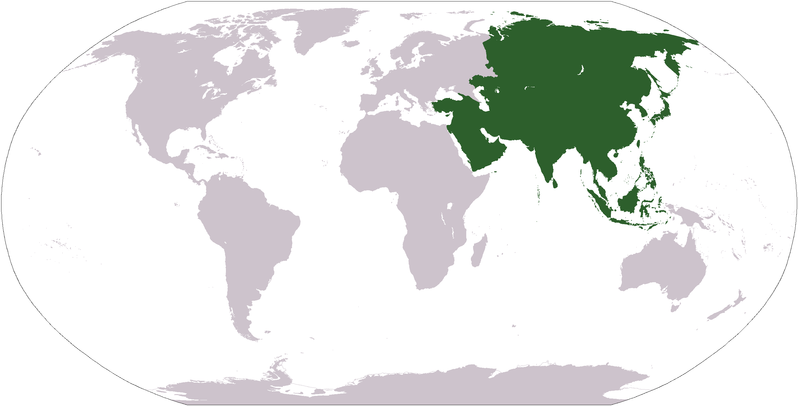 World map depicting Asia; map adapted from PDF world map at CIA World Fact Book.